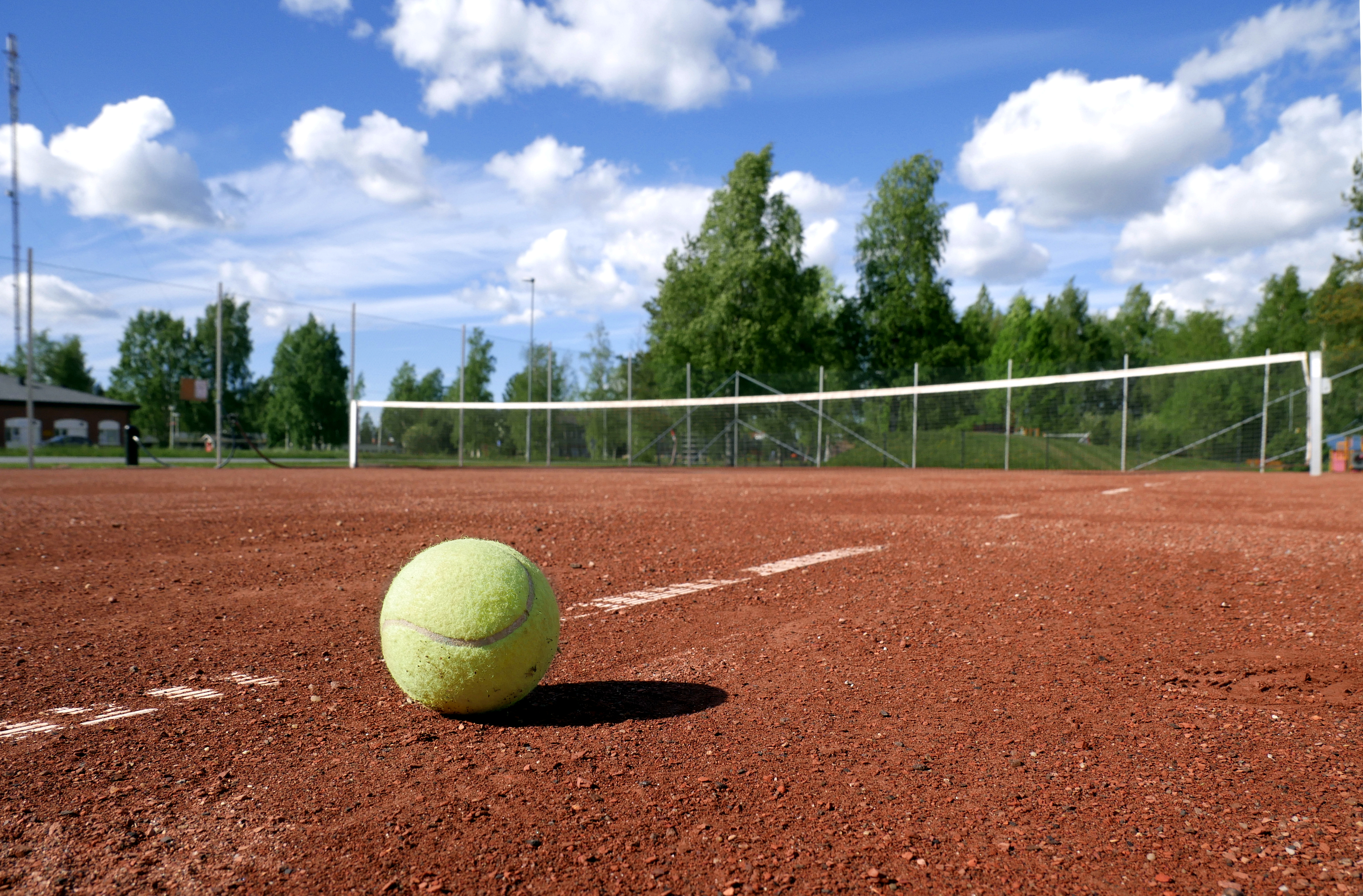 Tennis ball on tennis court.